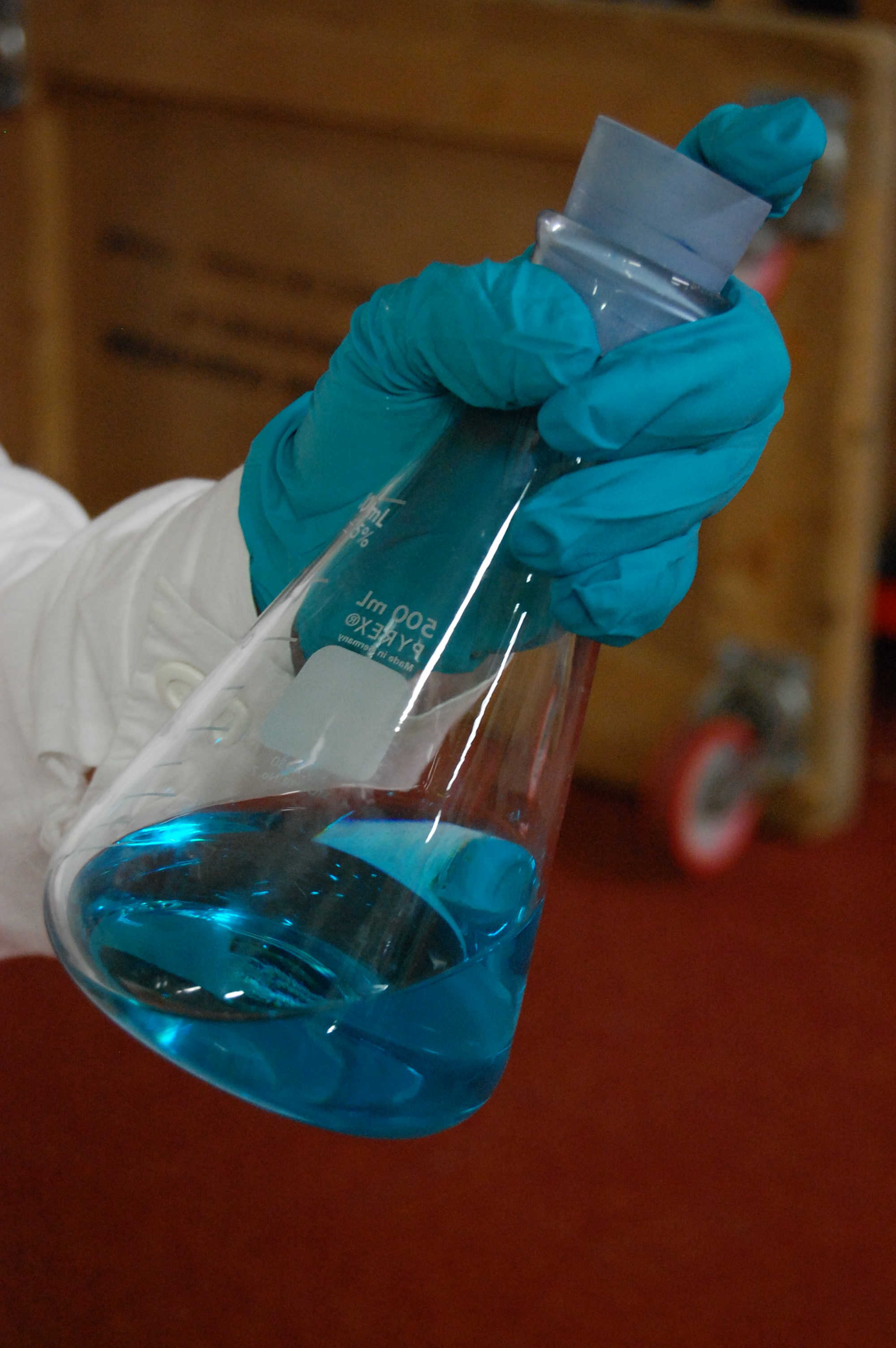 500ml Erlenmeyer flask, at l'Espace des sciences